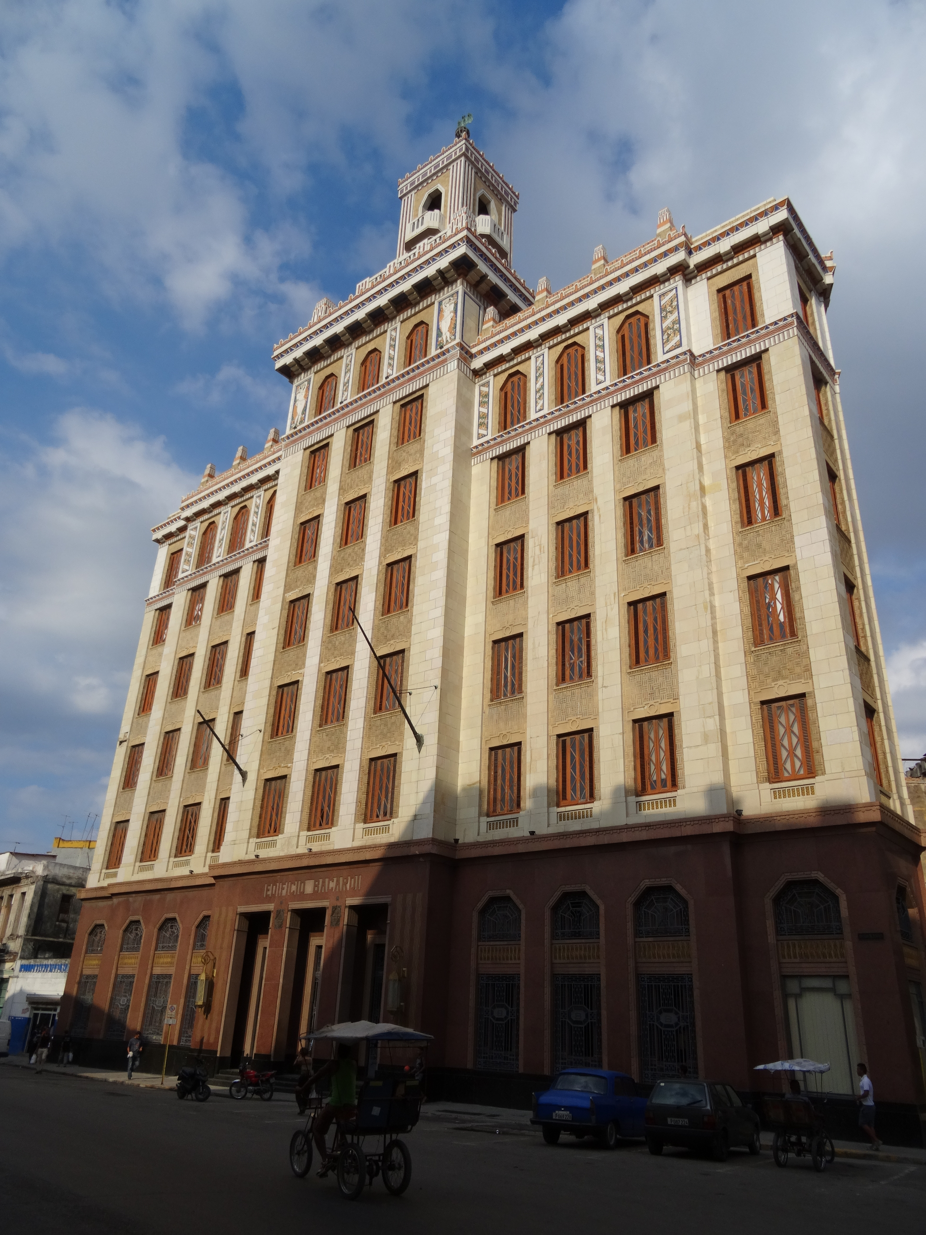 Bacardi Building (Havana), 1930